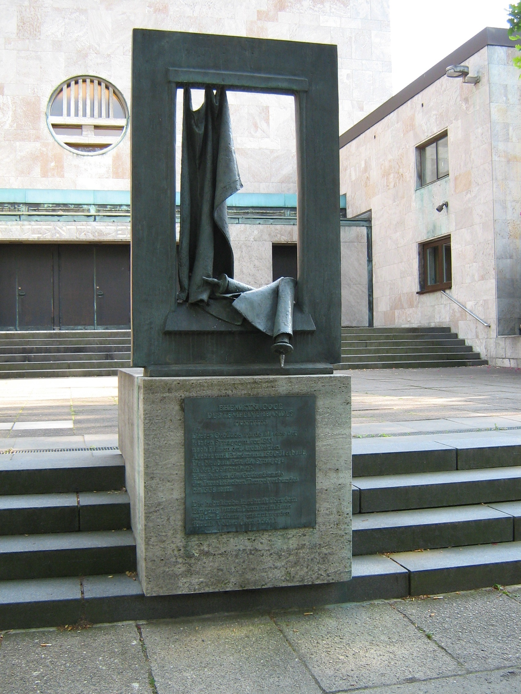 Former Jewish temple Oberstraße 120, Havestehude, public entrance; now Rolf-Liebermann-Studio of the Northern German Broadcasting Corporation (NDR), Memorial by Doris Waschk-Balz, 1983